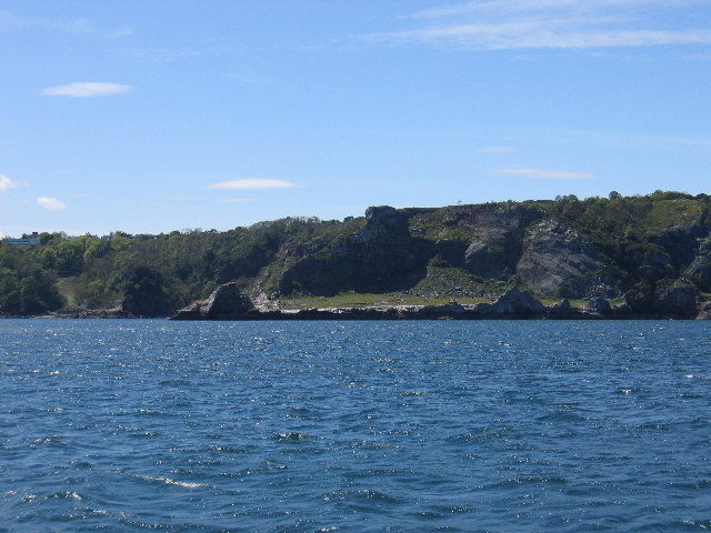 Long Quarry Point, Babbacombe. This former quarry on the headland has left some interesting rock shapes